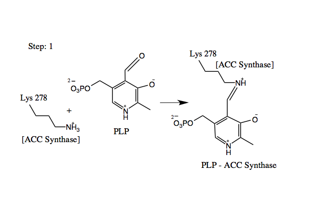 chembio draw rendering of Steph 1 of ACS mechanism